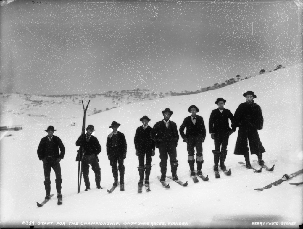 Skiers at Kiandra, the birthplace of Australian skiing.